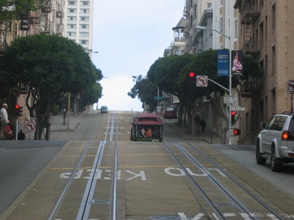 Description:Street of San Francisco, California Author:Own work, Urban. i took this picture on April 2006.